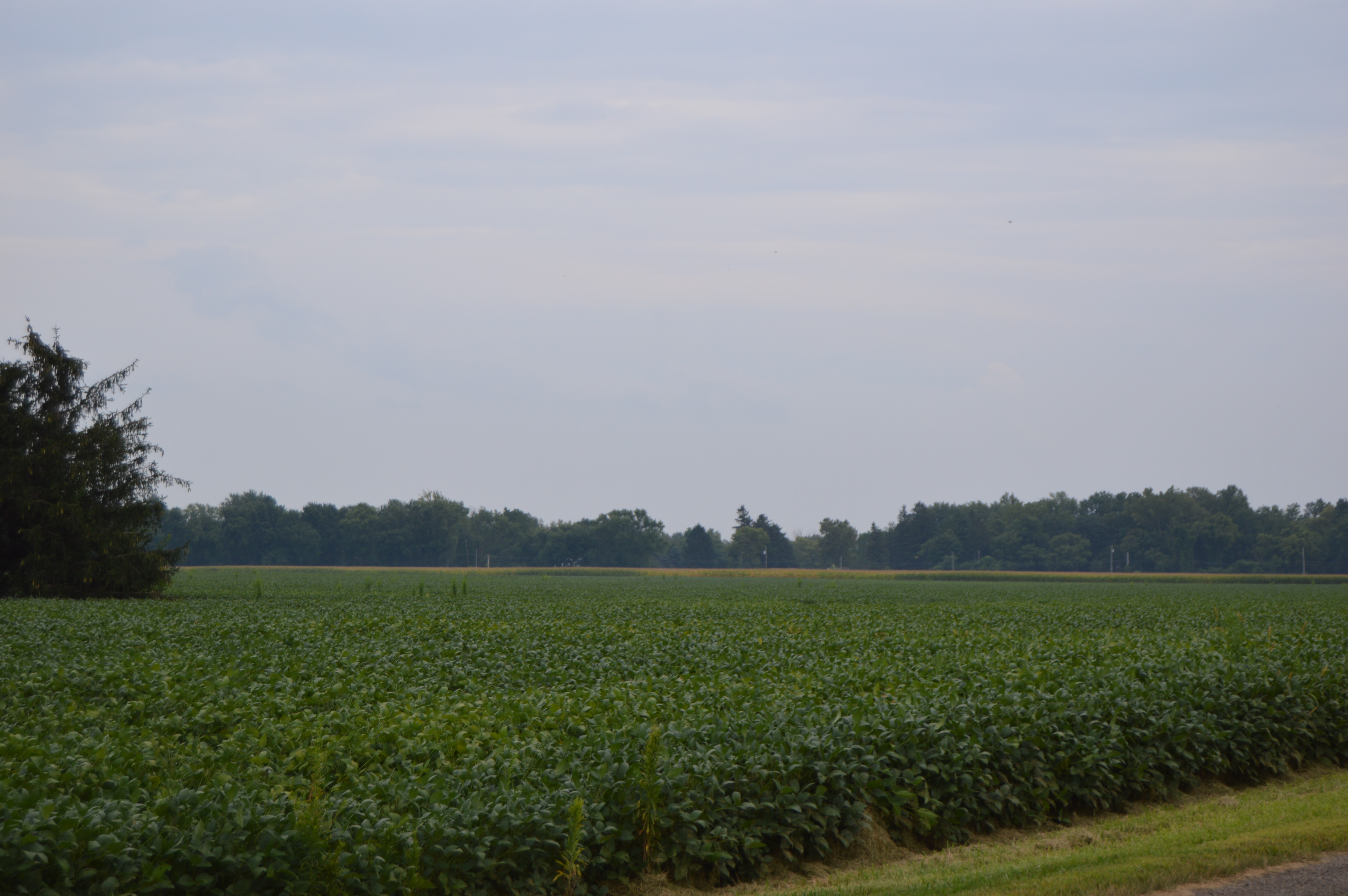 Looking southeast from the junction of Neowash and Noward Roads in Waterville Township, Lucas County, Ohio, United States.